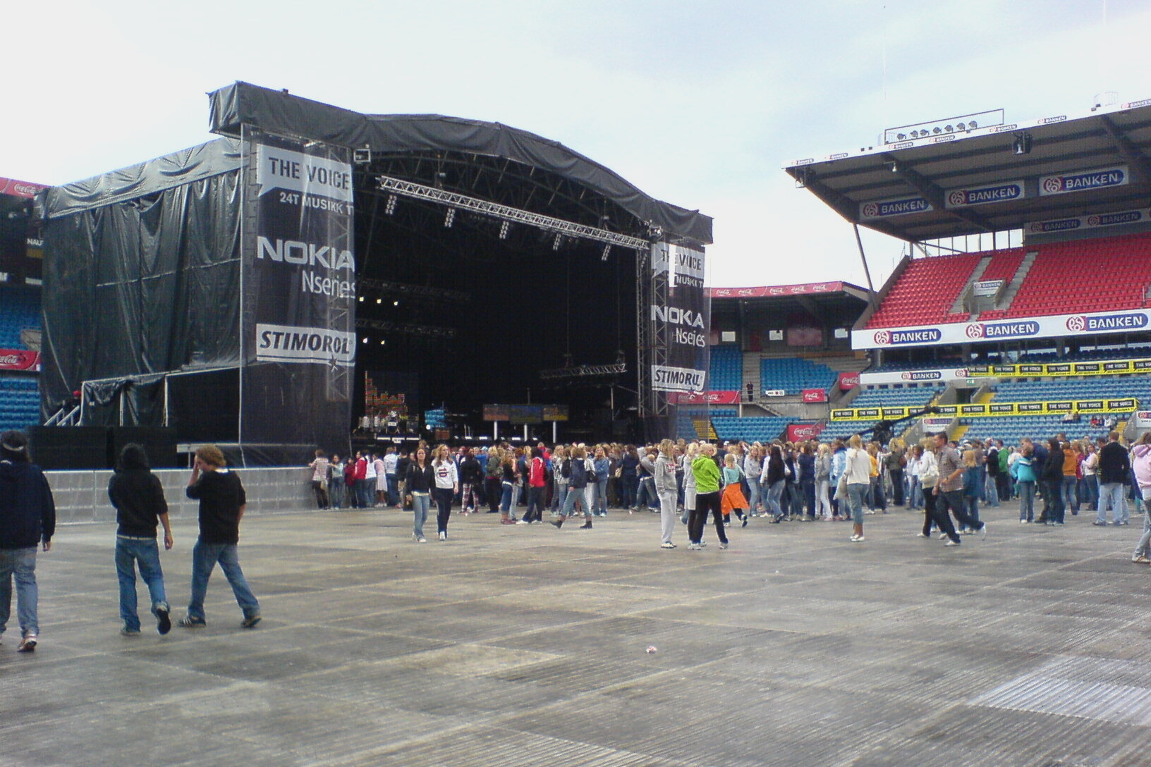 The Voice concert 2006. It is 30 minutes before the concert starts, maybe an hour. Ullevaal became about 50% larger a couple of hours later, especially when Karpe Diem came. The concert is at Ullevaal Stadion, Oslo.